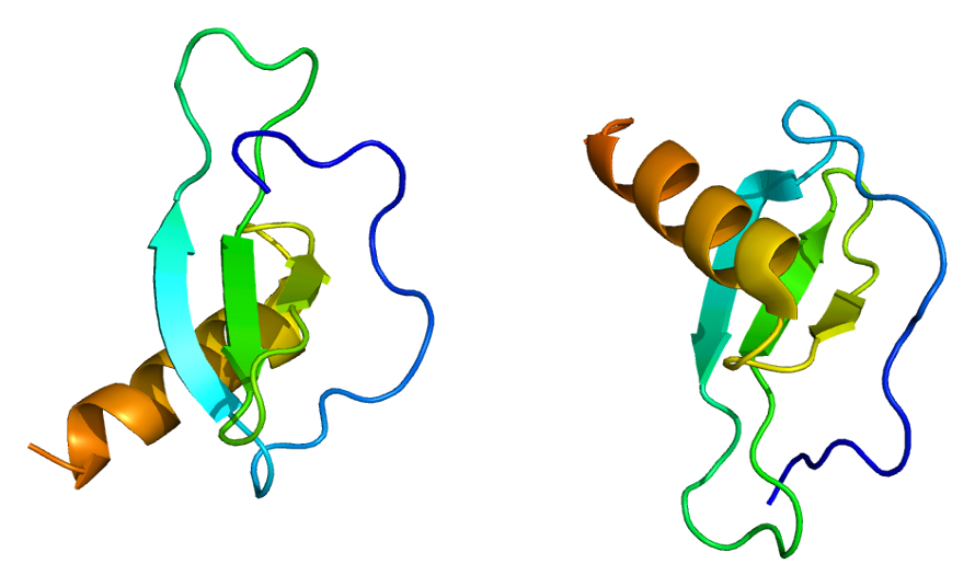 Structure of the CCL17 protein. Based on PyMOL rendering of PDB 1nr2.